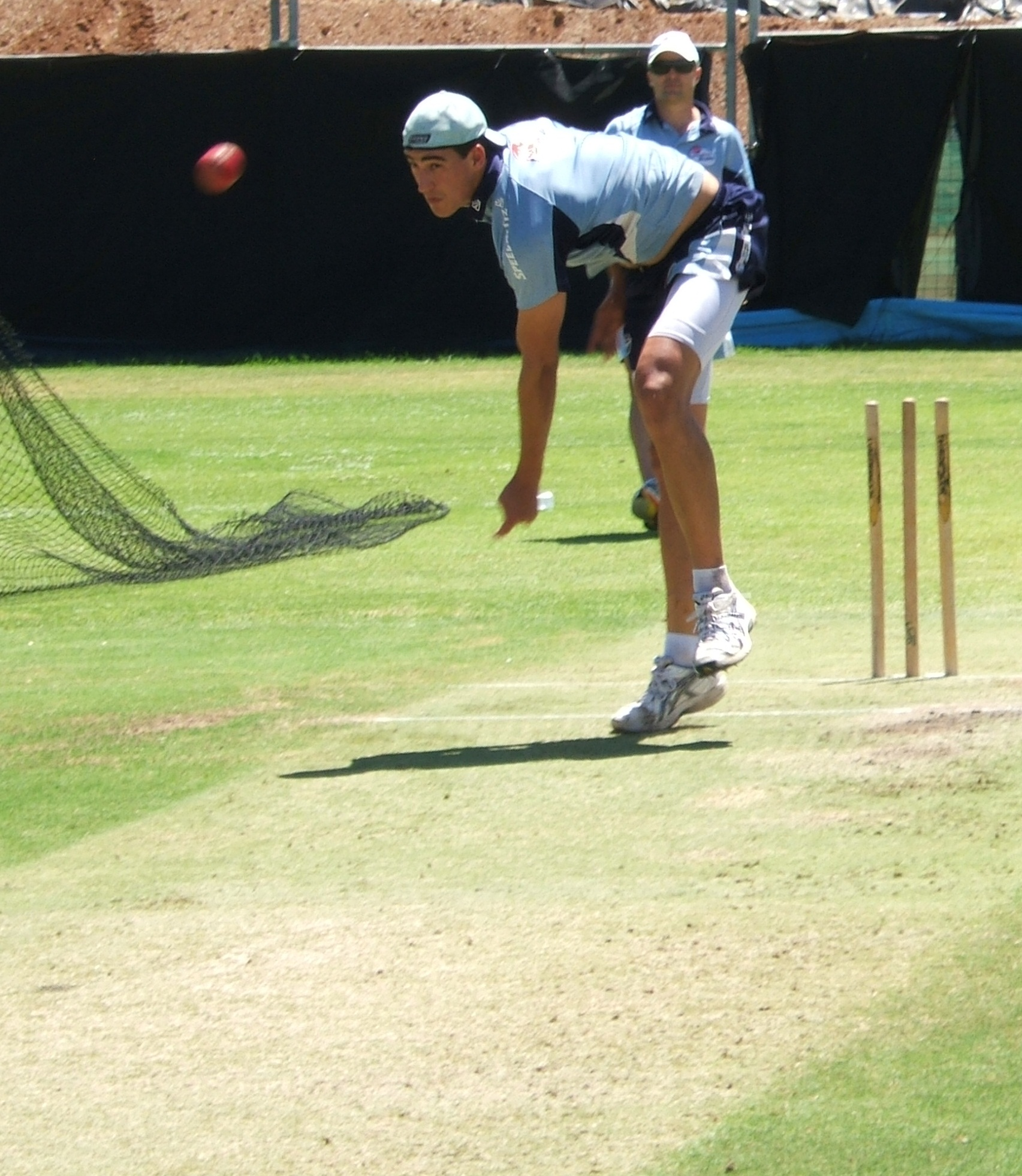 Named person engaging in named action at Adelaide Oval nets/training ground